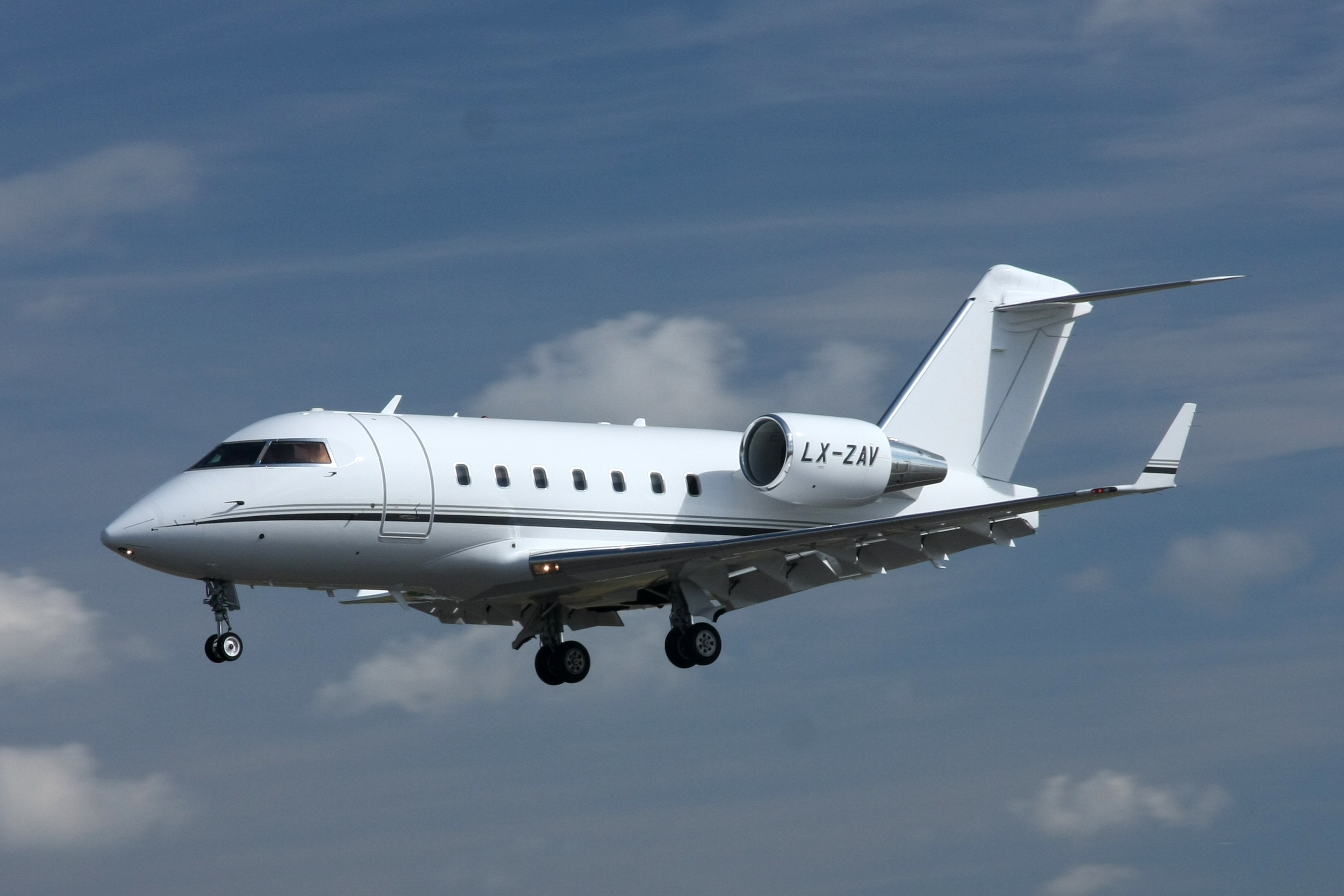 Canadair CL500 Challenger 604 at the 2010 Farnborough Airshow